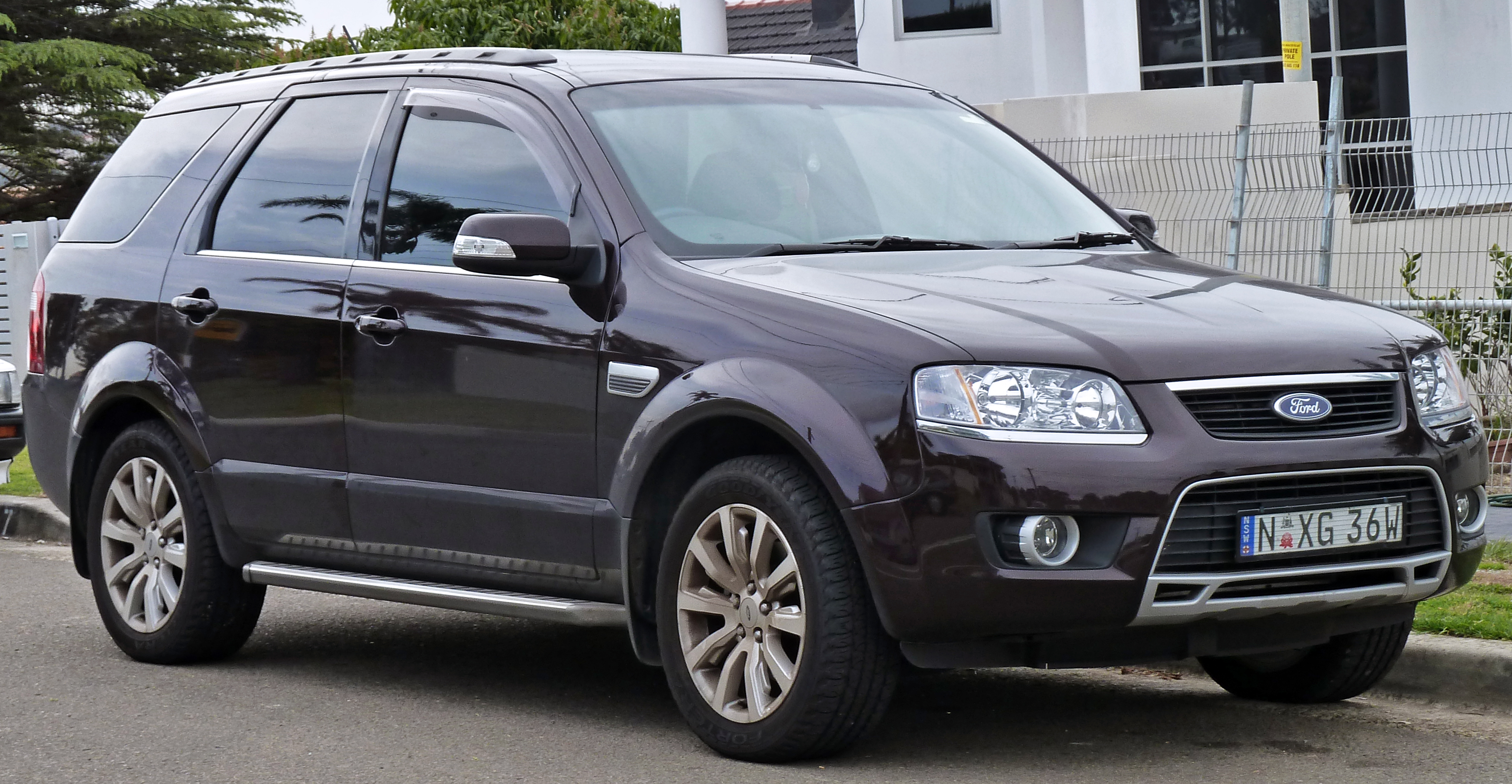 2009–2010 Ford Territory (SY II) Ghia wagon. Photographed in Taren Point, New South Wales, Australia.